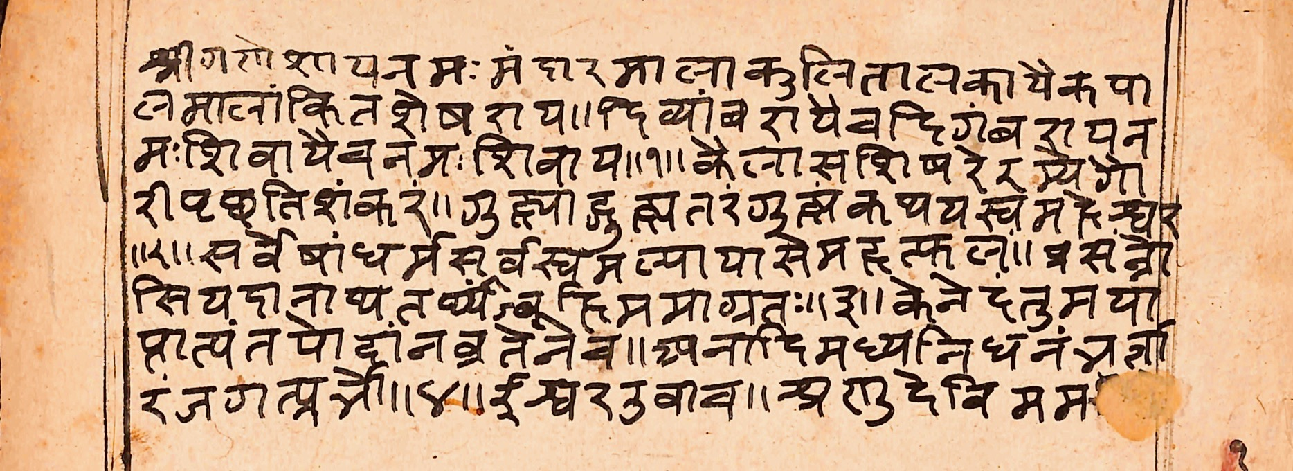 This is a page from the Padma Purana manuscript. Language: Sanskrit Script: Devenagari This manuscript was acquired in the 19th-century, and was produced in or before the acquisition. The photo above is of a 2D artwork from the text that was itself authored more than 500 years ago. Therefore Wikimedia Commons PD-Art licensing guidelines apply. Any rights I have as a photographer is herewith donated to wikimedia commons under CC 4.0 license.